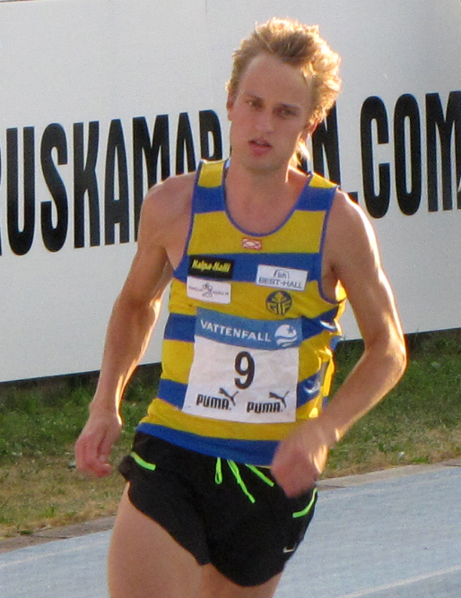 Tommy Granlund at Lappeenranta Games, Finland, 2010.